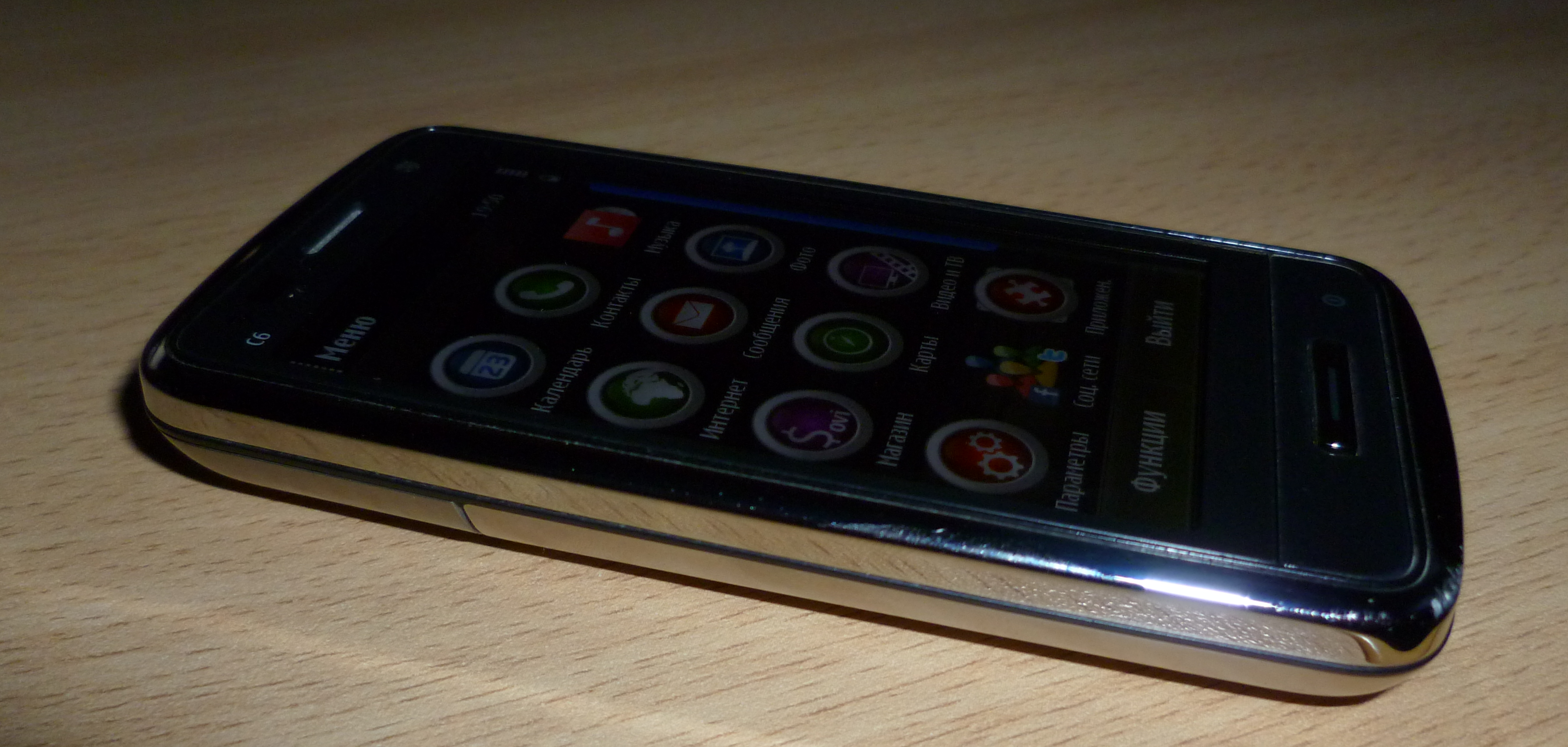 Demonstration of ClearBlack technology